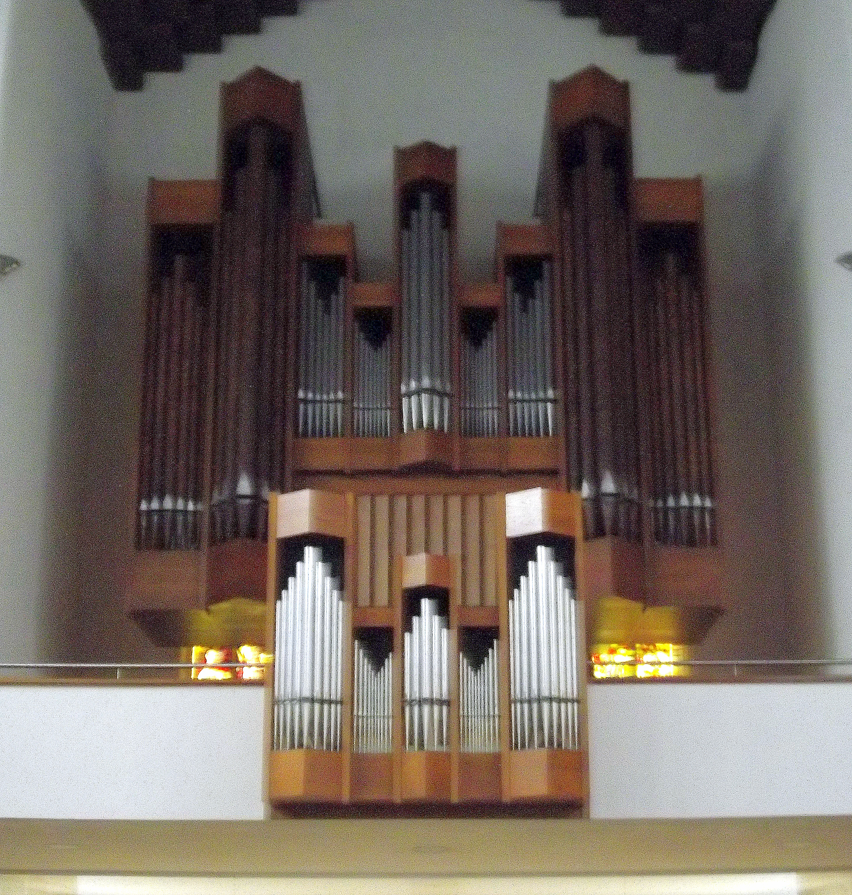 Hugo-Mayer-organ of the catholic church of Heusweiler, Saarland, Germany